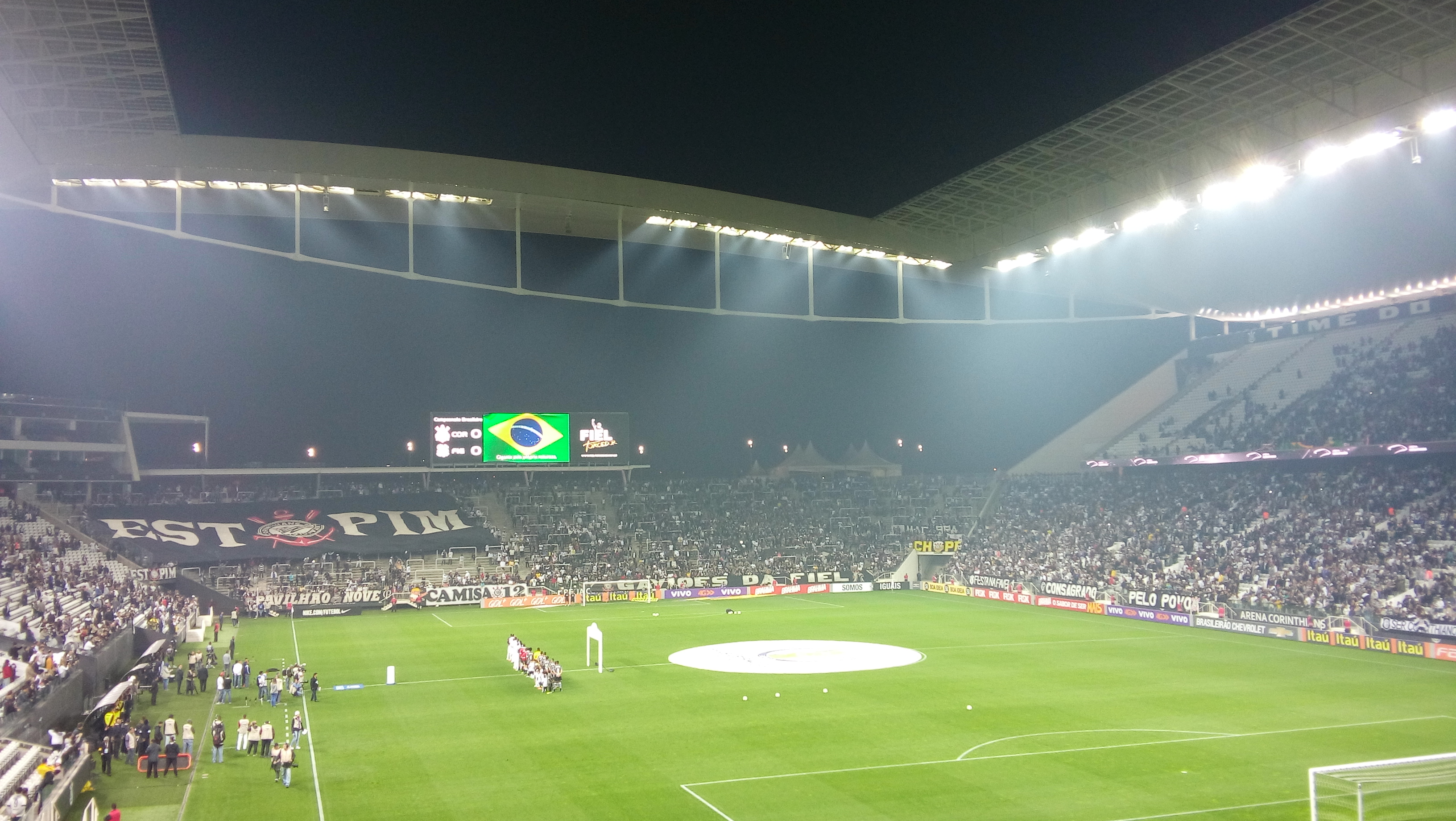 Arena Corinthians has the best lighting in the world